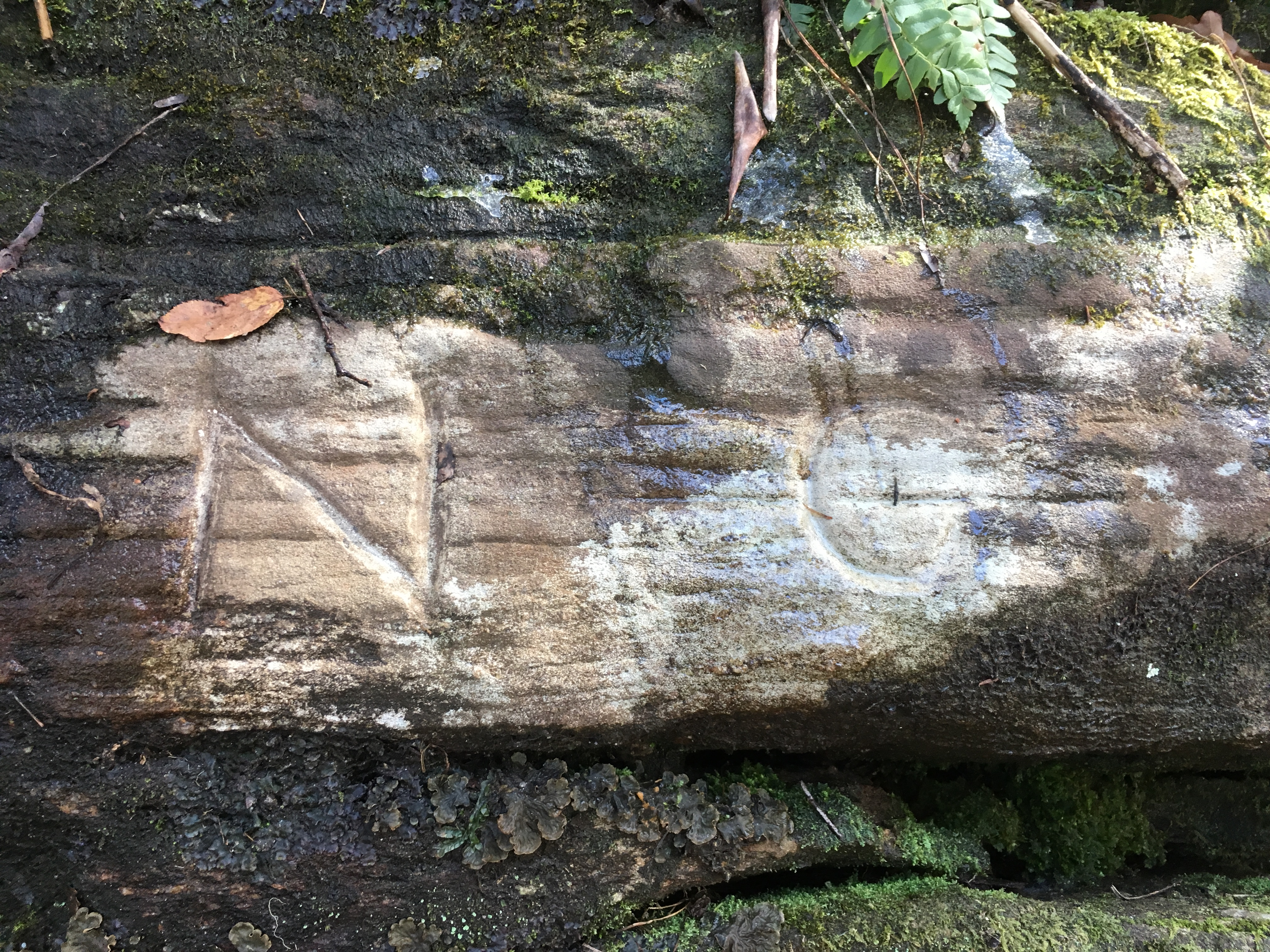 Ellicott's Rock located in Ellicott Rock Wilderness at the point that South Carolina, North Carolina, and Georgia state lines meet.